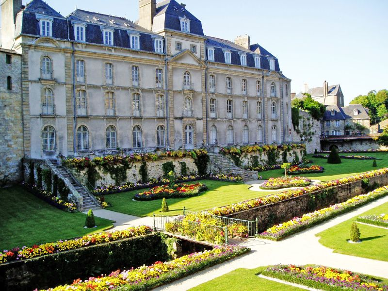 Vannes' castle